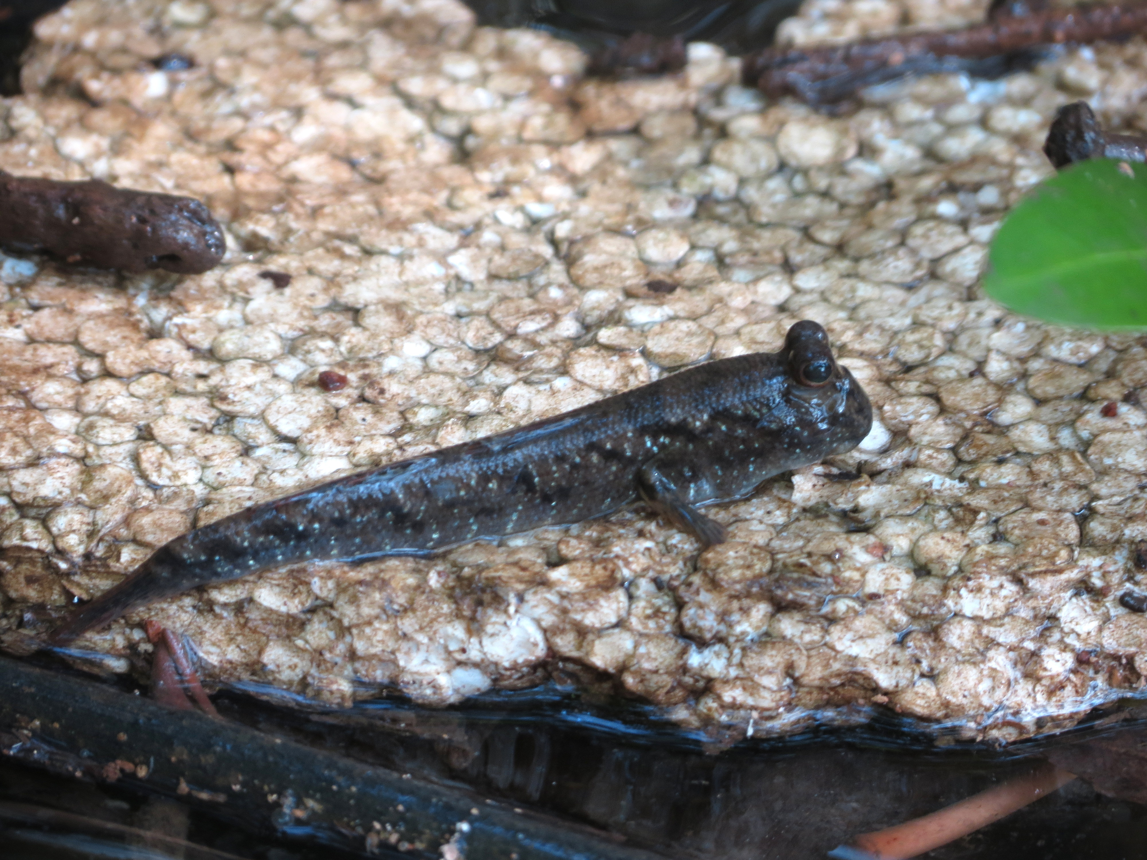 Mudskipper found in Salim Ali bird sanctuary in Chorao along river mandovi Goa.